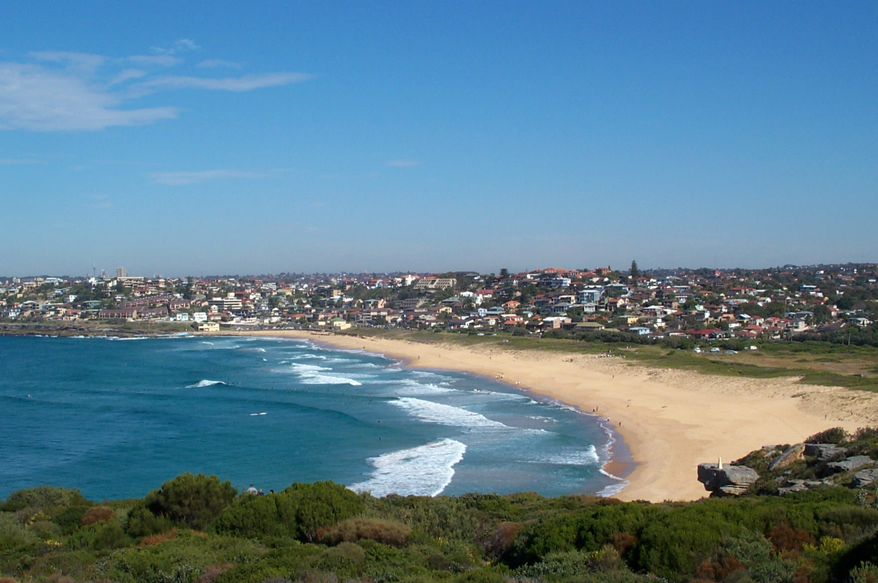 A photo of Curl Curl Beach looking south towards Harbord with the Sydney City CBD in the distance to the left. Author: Dave Elkan